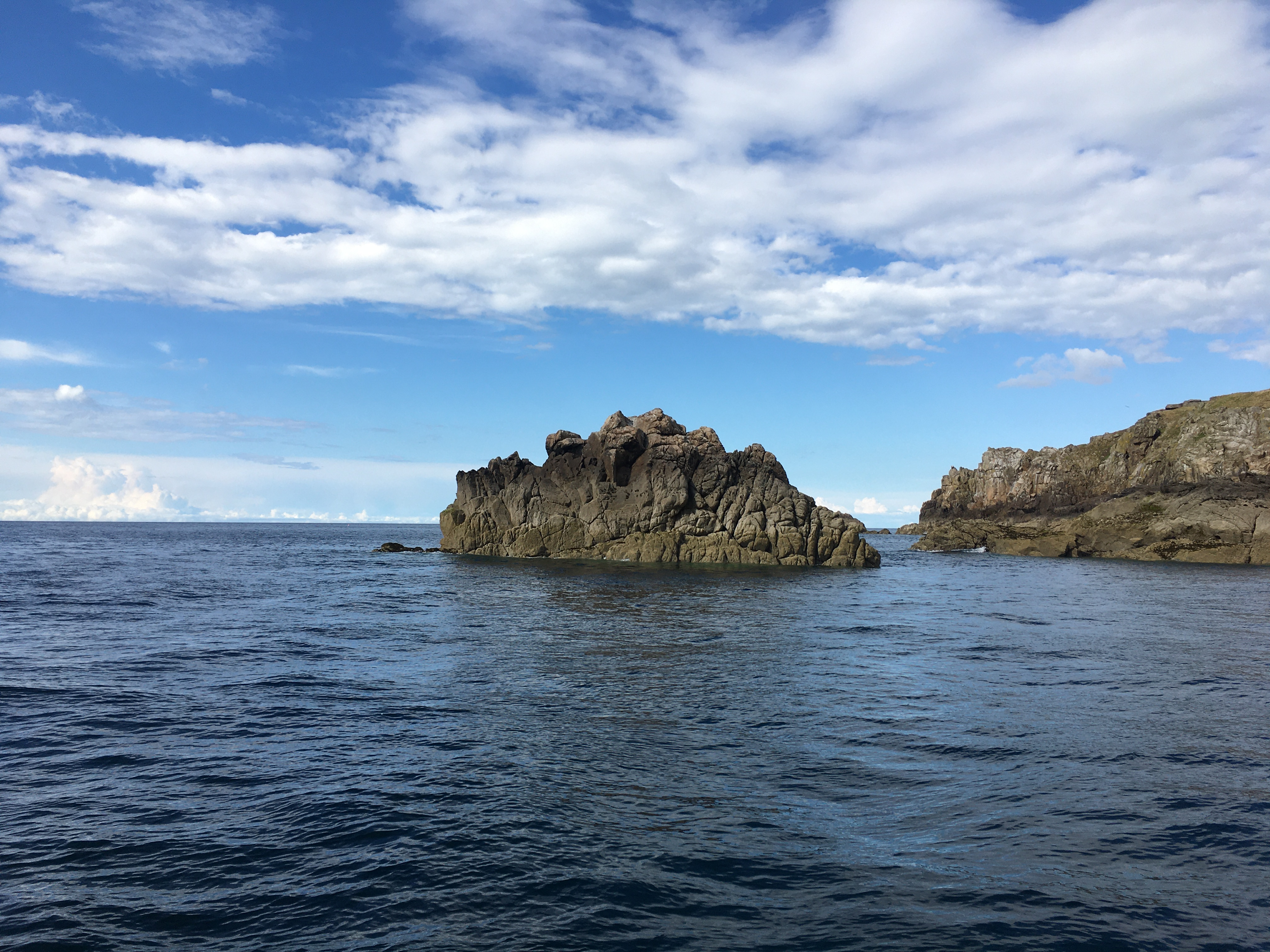 Rocher du Dragon (Baie de Saint Malo)